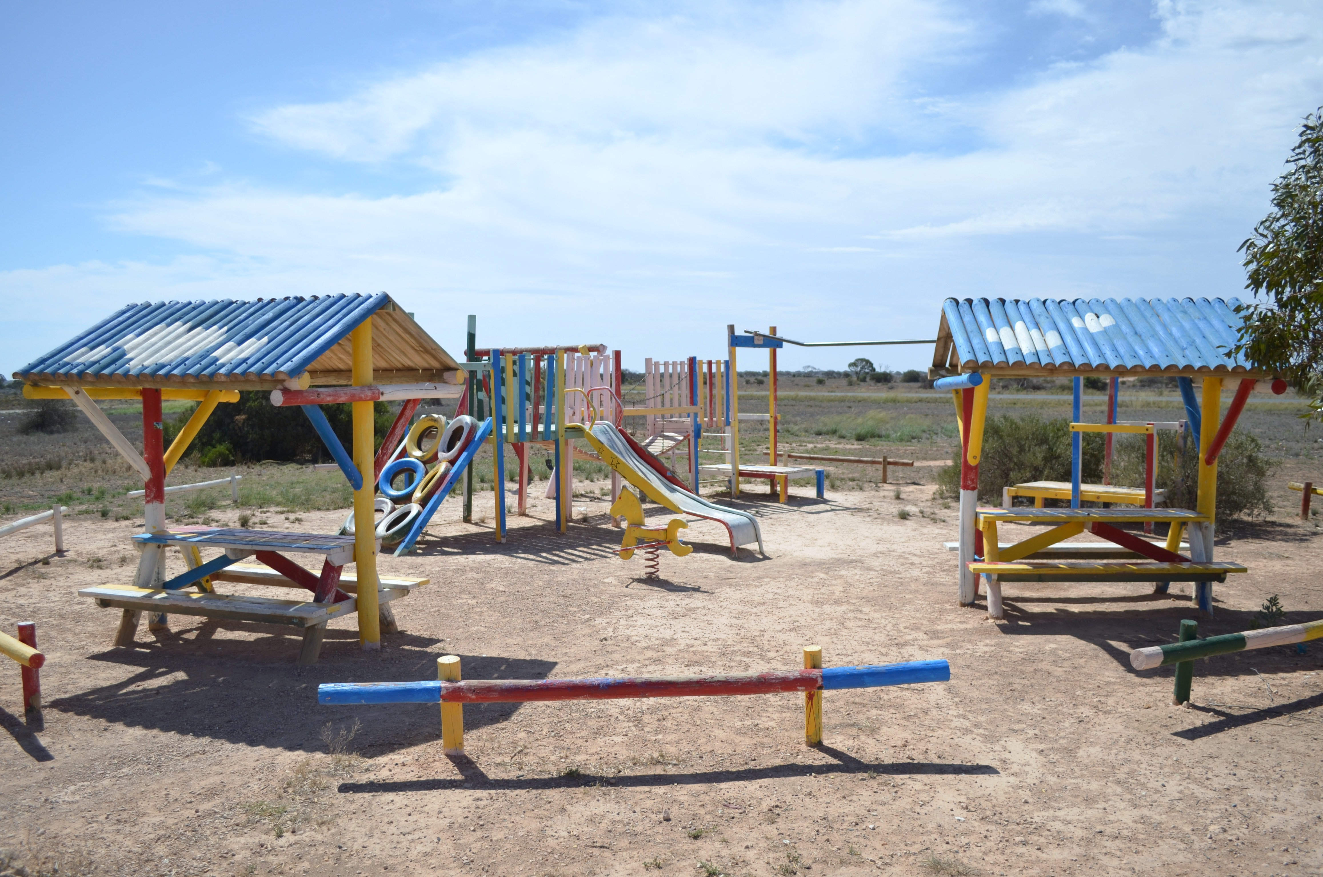 An old style playground, constructed of timber and steel, at the Cocklebiddy roadhouse, on the Nullarbor Plain, Western Australia. Photo taken from the forecourt of the roadhouse, looking towards the Eyre Highway, which is visible in the background.